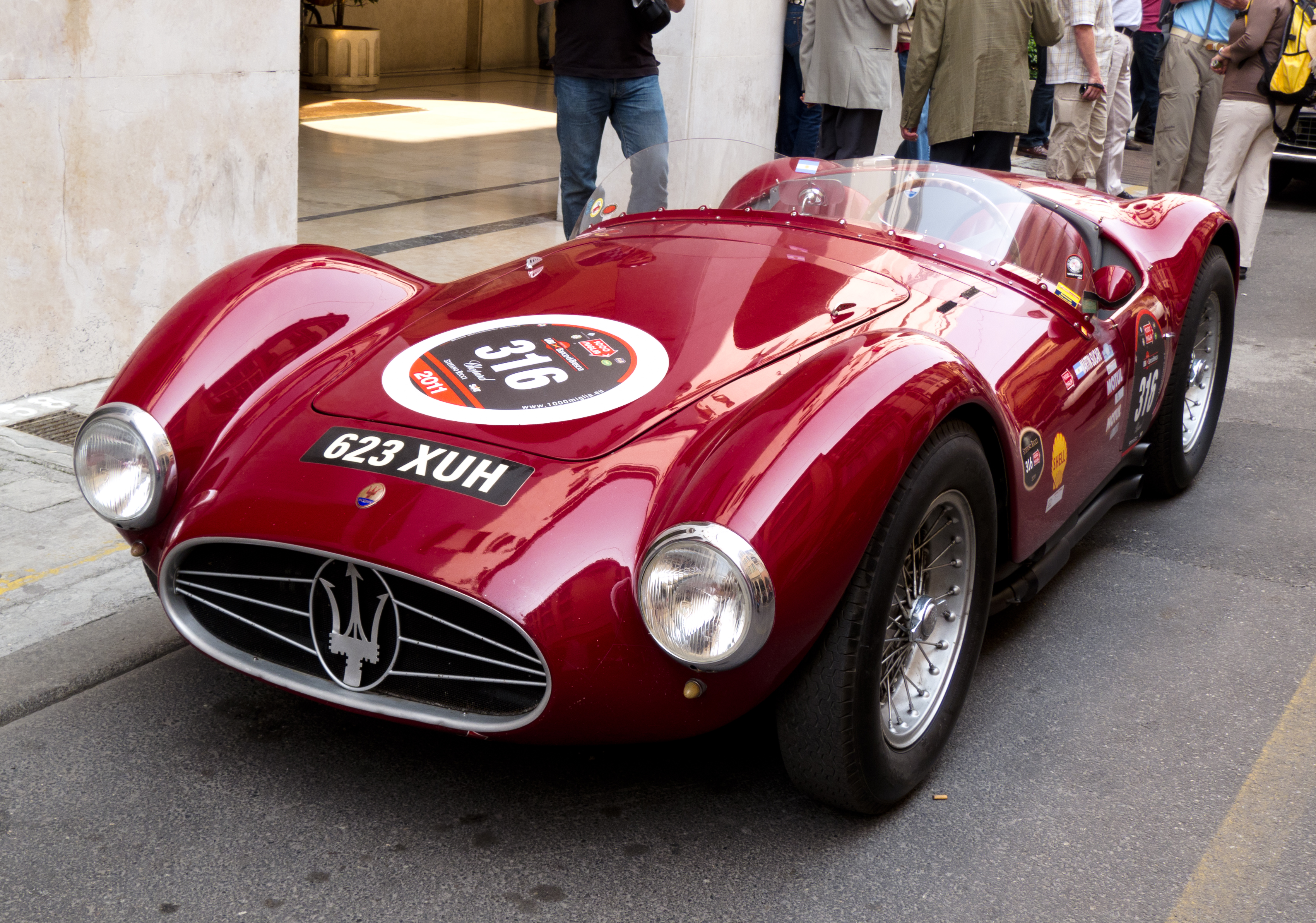 1954 Maserati A6 GCS at the 2011 Mille Miglia